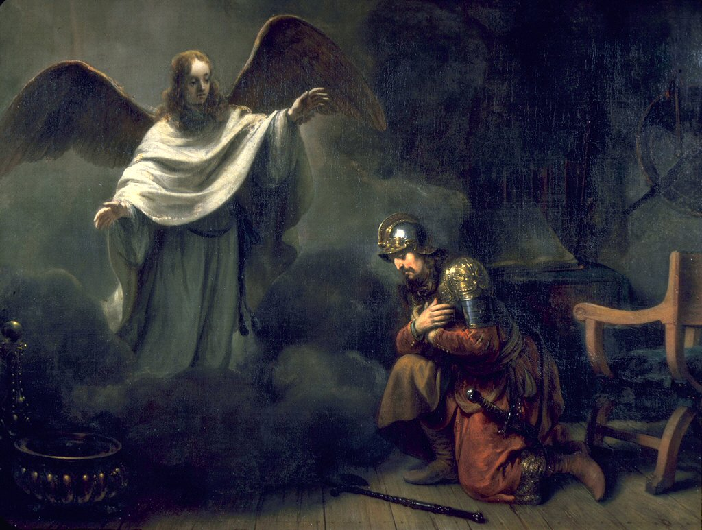 A dramatic play of light and shadow can add an emotional charge to the depiction of an event. This was the great lesson that Eeckhout absorbed from his teacher Rembrandt van Rijn in the late 1630s and was still using in 1664, when he signed and dated this painting. This is especially effective for representing contact between the human and the divine-here, the appearance of an angel to the Roman centurion Cornelius (Acts of the Apostles). The angel tells him to seek out St. Peter, who will then preach to him about Christ. Eeckhout also adopted Rembrandt's use of details to engage the viewer, such as the centurion's gestures of submission to greater authority-arms crossed on the chest and his officer's ceremonial war axe laid on the ground. The cistern at the left foreshadows Cornelius's baptism by St. Peter.